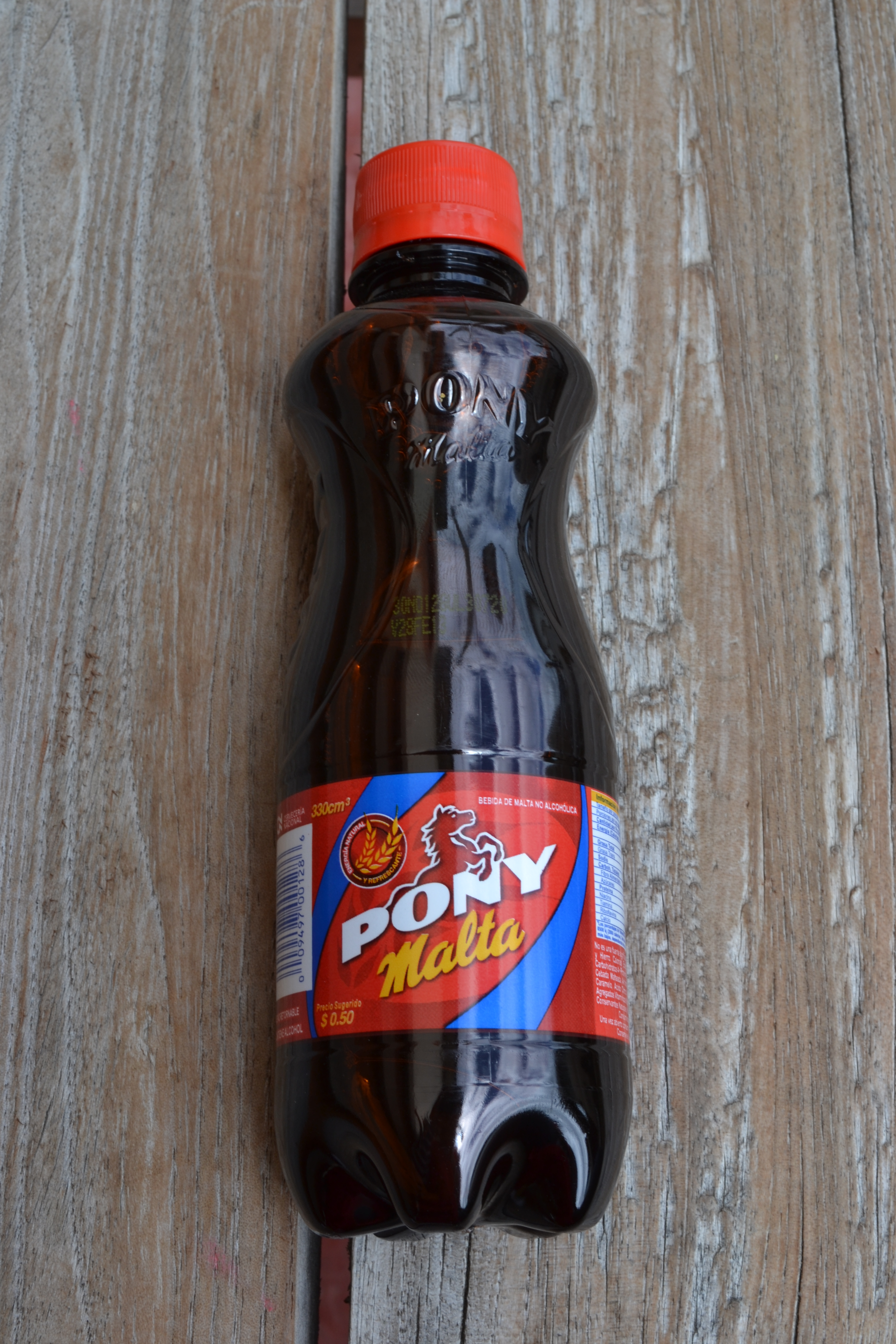 Bottle of pony malta. 240ml.